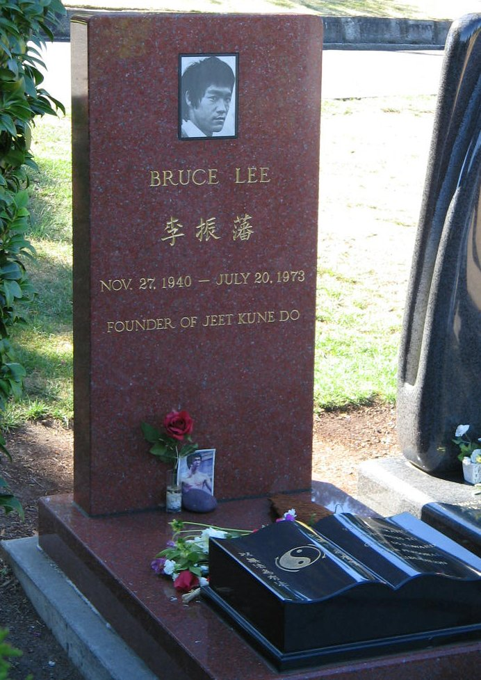 Picture of Bruce Lee's grave took in Seattle, August 2005.